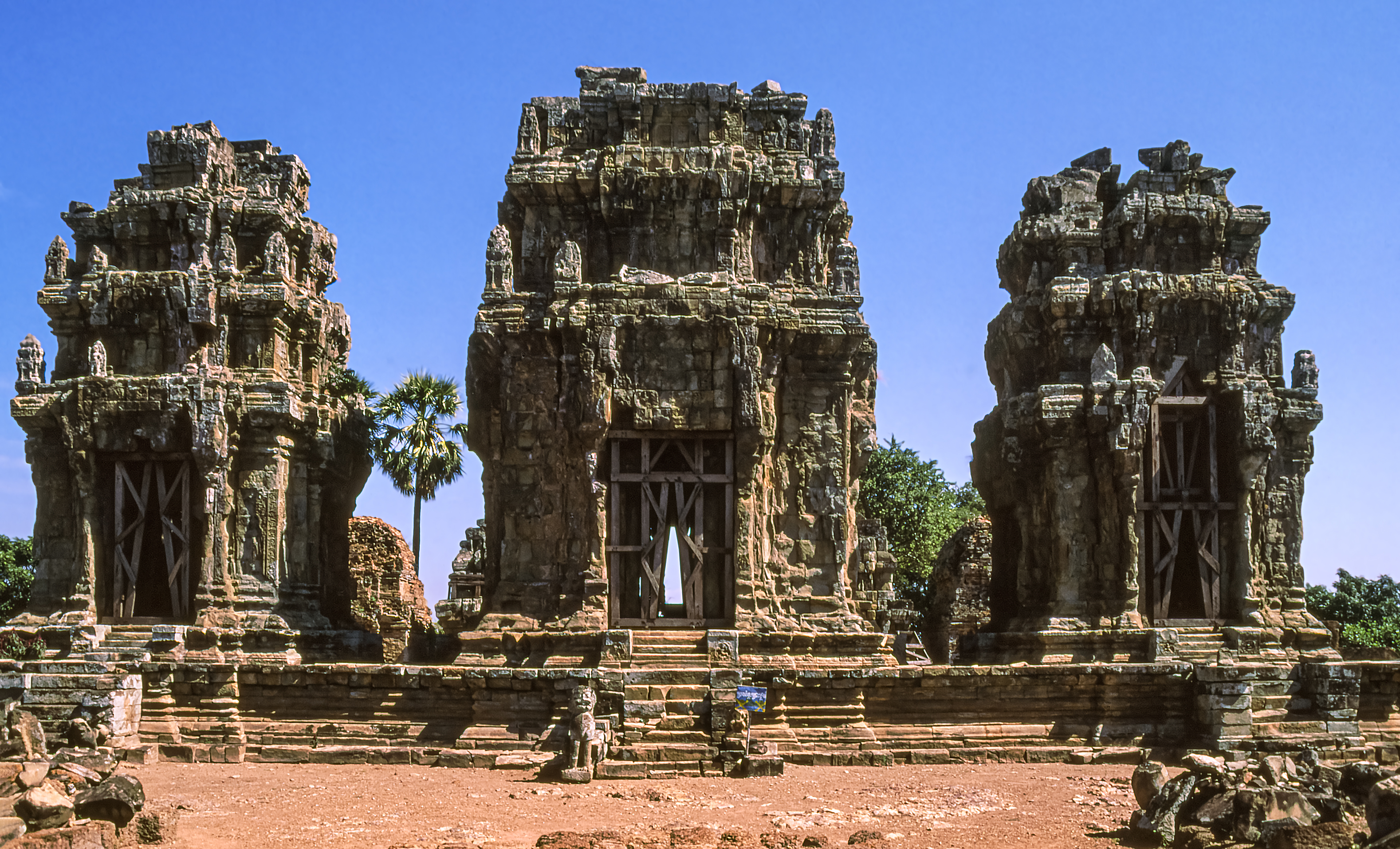 Temple of Phnom Krom near Siem Reap ភាសាខ្មែរ: ប្រាសាទភ្នំក្រោម